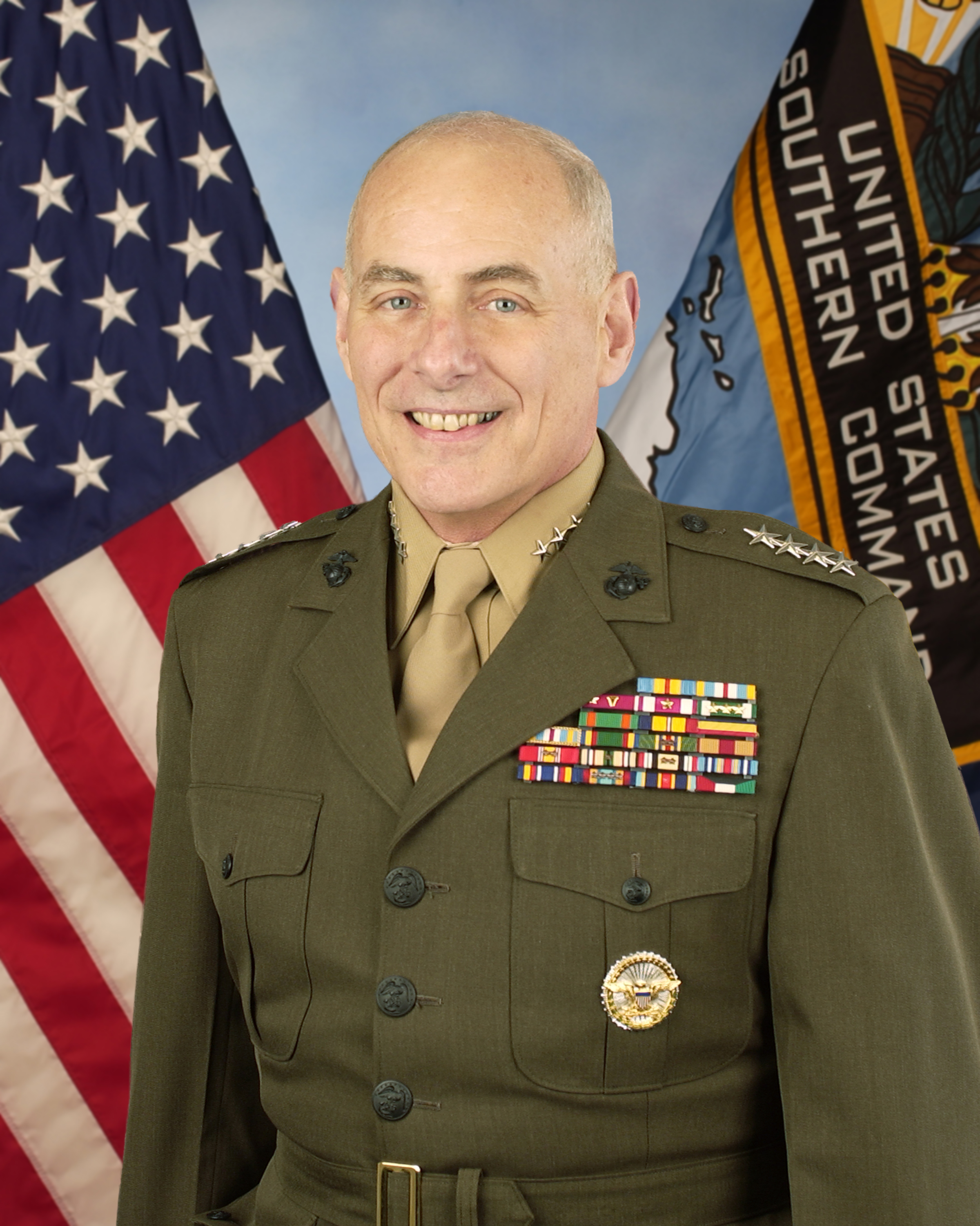 Commander, USSOUTHCOM